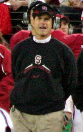 Stanford football coach Jim Harbaugh at the 2009 "Big Game" vs California